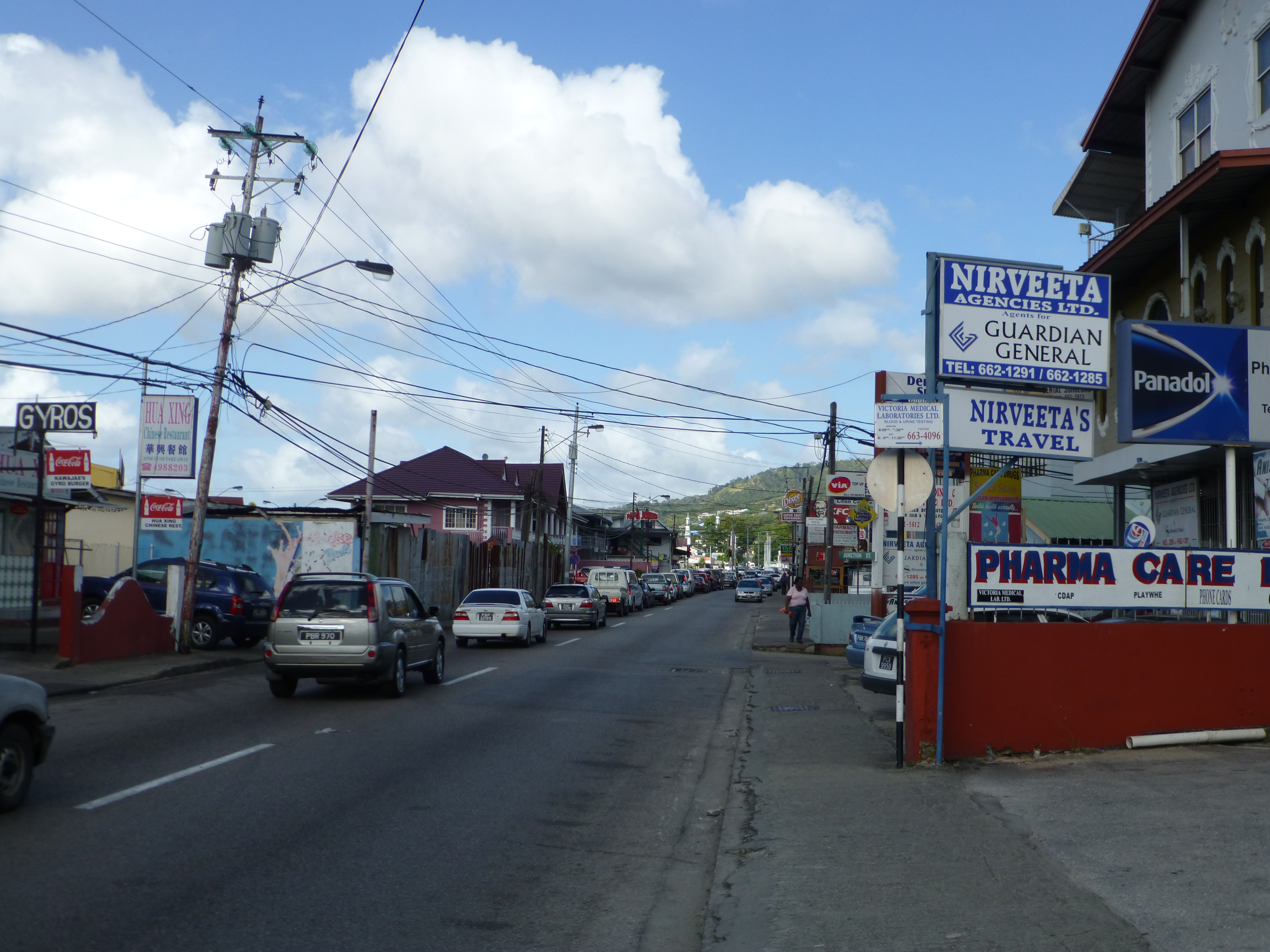 Curepe, Trinidad. Eastern Main Road, border to St. Augustine.